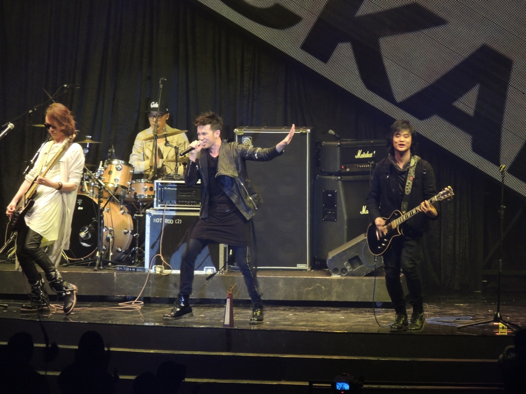 Dear Jane @ Ultimate Song Chart Awards 2012